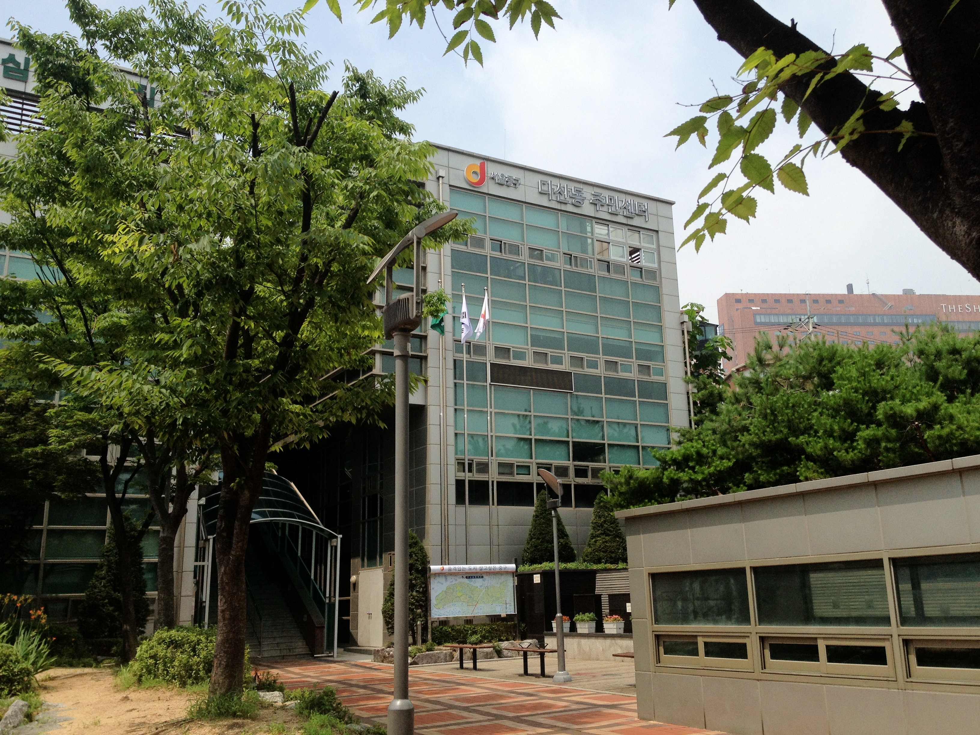 Dasan-dong Community Service Center(Jung-gu)